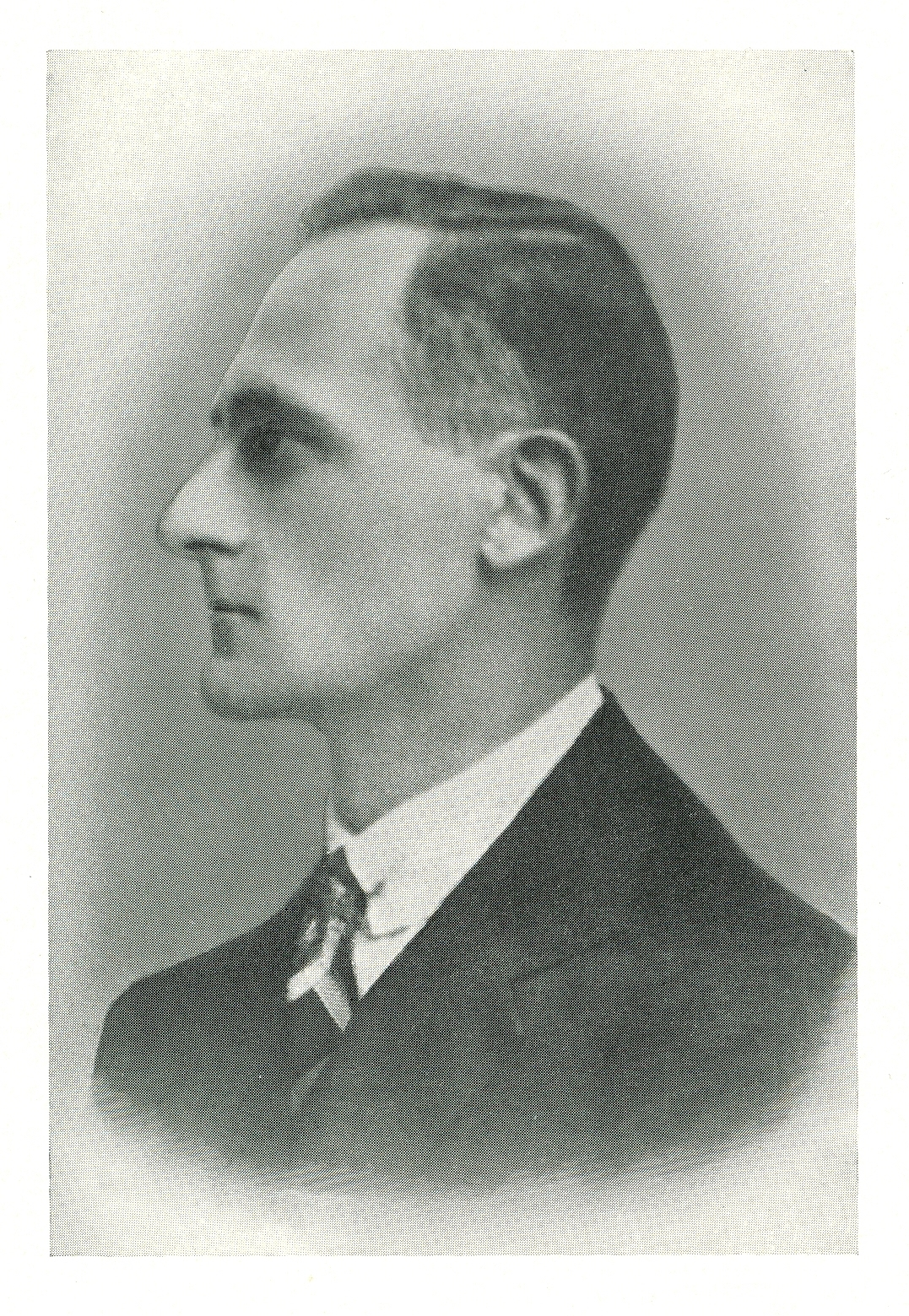 Luigi Suali portrait